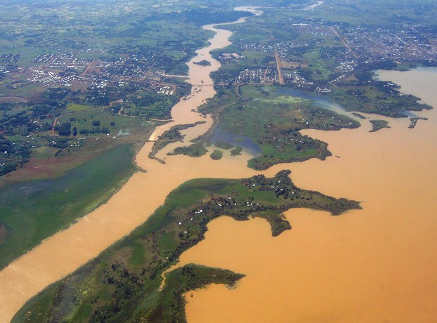 Location of Bahir Dar near the place where Blue Nile leaves Lake Tana